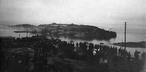 People of Helsinki watching the action of 1906 Sveaborg Rebellion on the islands of the Sveaborg naval fortress.